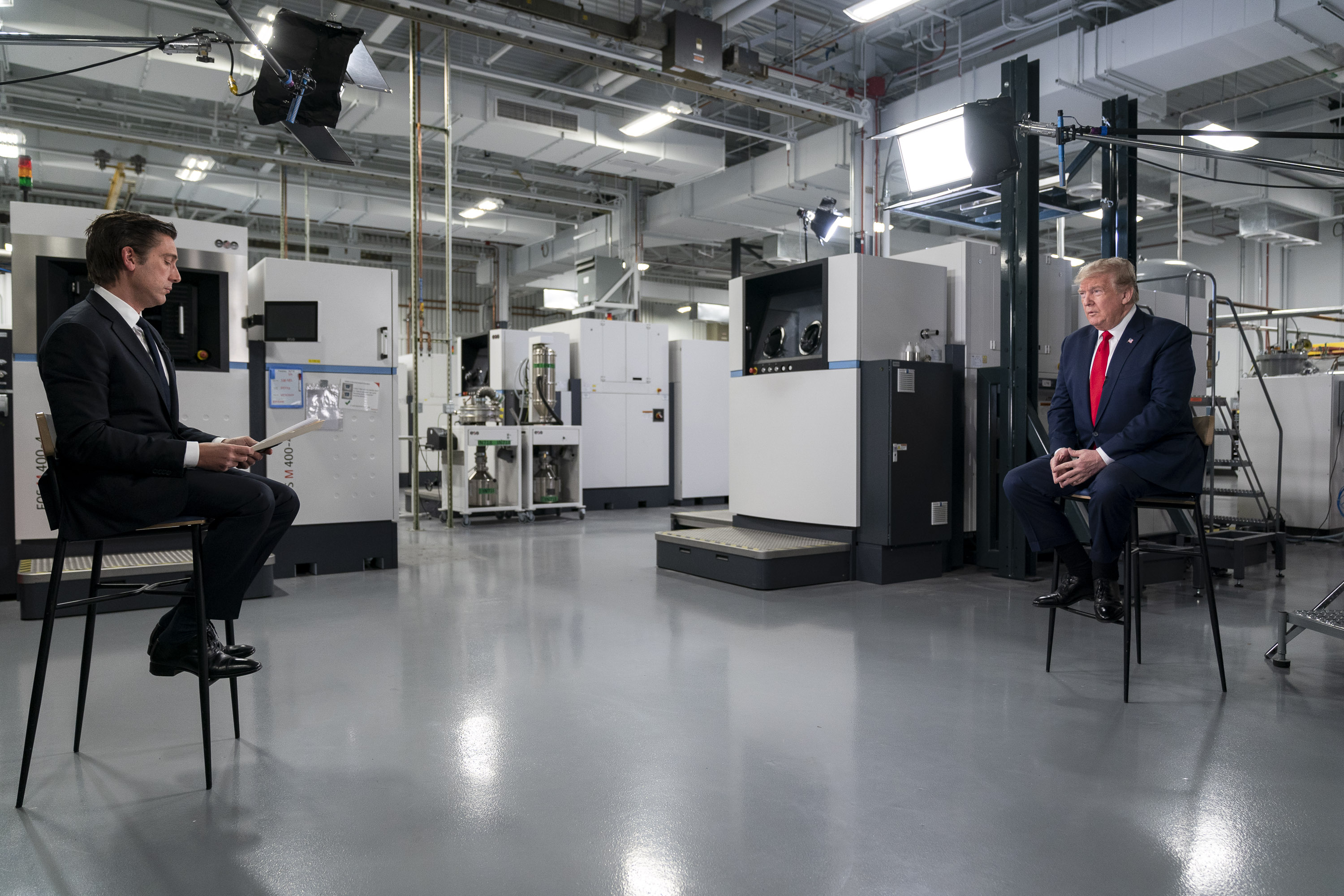 President Donald J. Trump participates in a taped interview with David Muir of ABC News Tuesday, May 5, 2020, at Honeywell International Inc. in Phoenix. (Official White House Photo by Shealah Craighead)